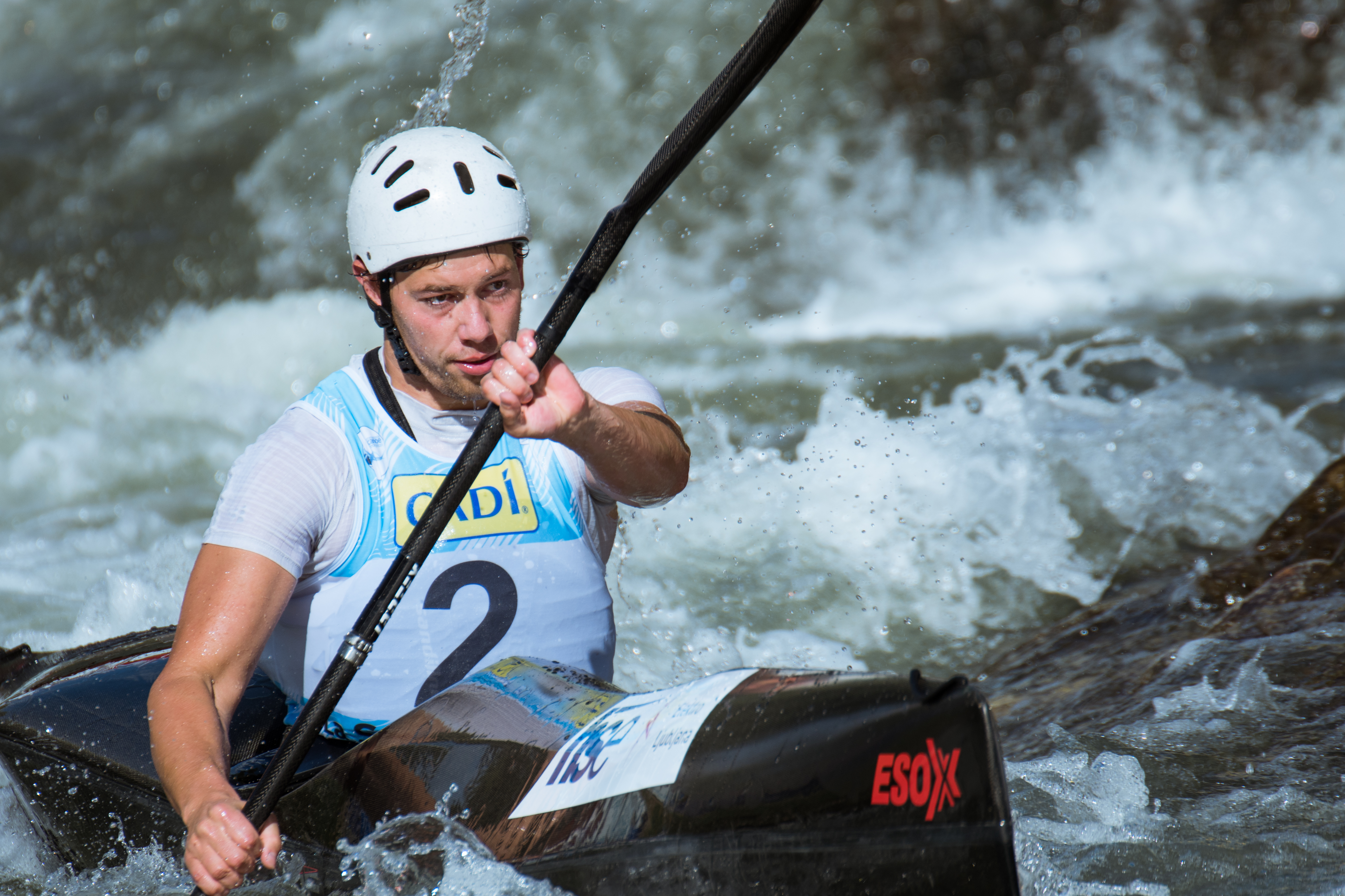 Simon Oven during the 2019 Canoe Wildwater World Championships in La Seu d'Urgell, Spain.